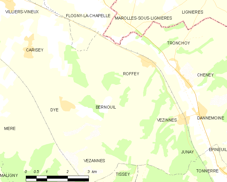 Map of French municipality Bernouil